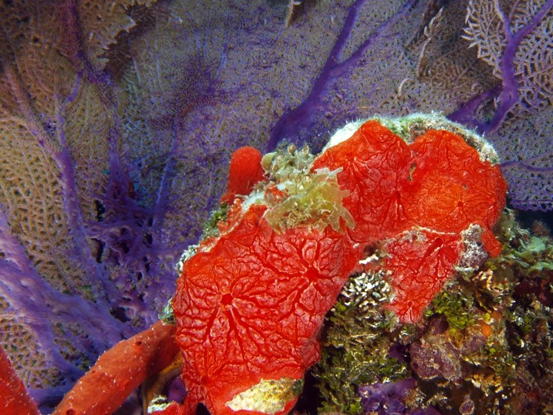 Monanchora arbusula (formerly M. barbadensis, Red encrusting sponge)